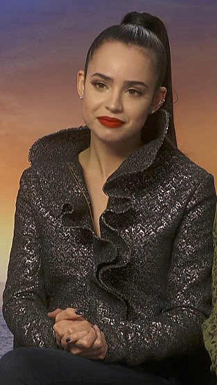 Sofía Carson in October 2017